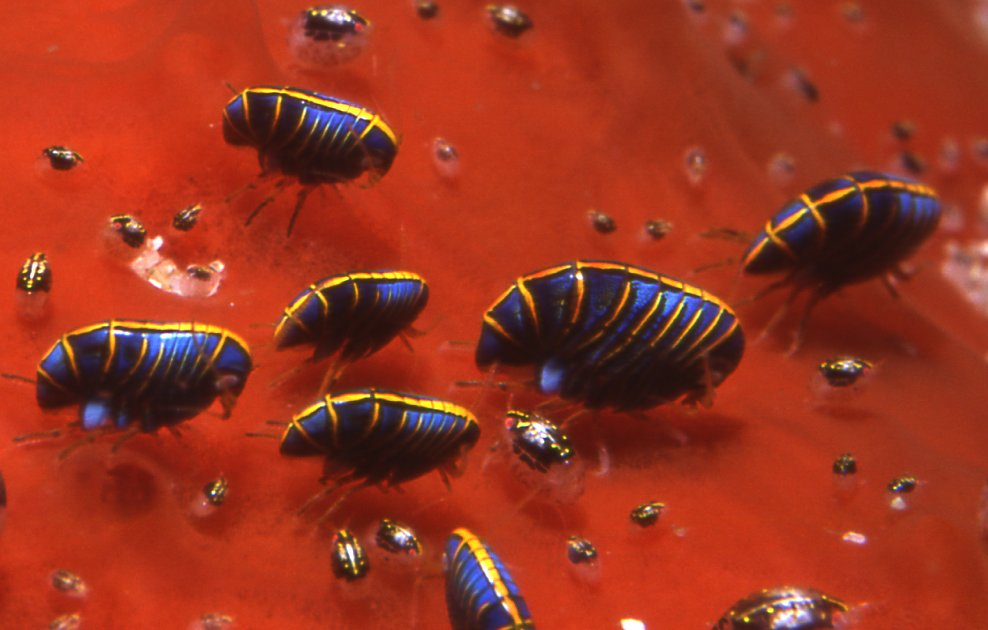 Hunchback amphipods Iphimedia gibba surrounded by ornate amphipods Cyproidea ornata on red sponge. Taken off Cape Peninsula 20m of water, Nikonos V camera